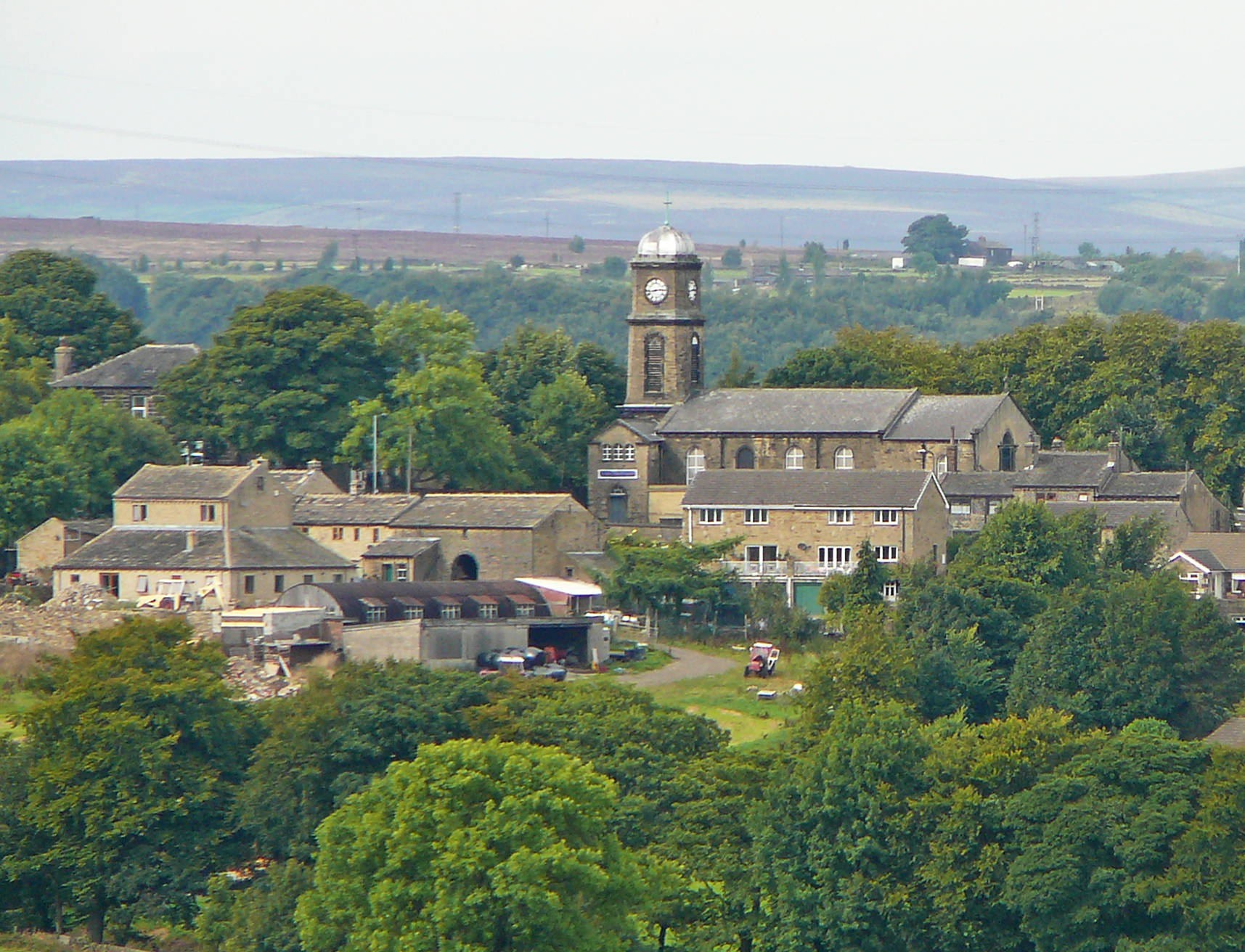 St Andrew's Church, Stainland. William Swinden Barber partly rebuilt and enlarged the church in 1887. Further information can be found here.